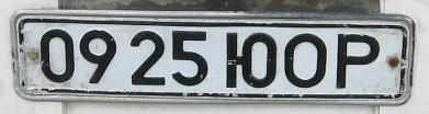 A license plate issued by the separatist government of South Ossetia.